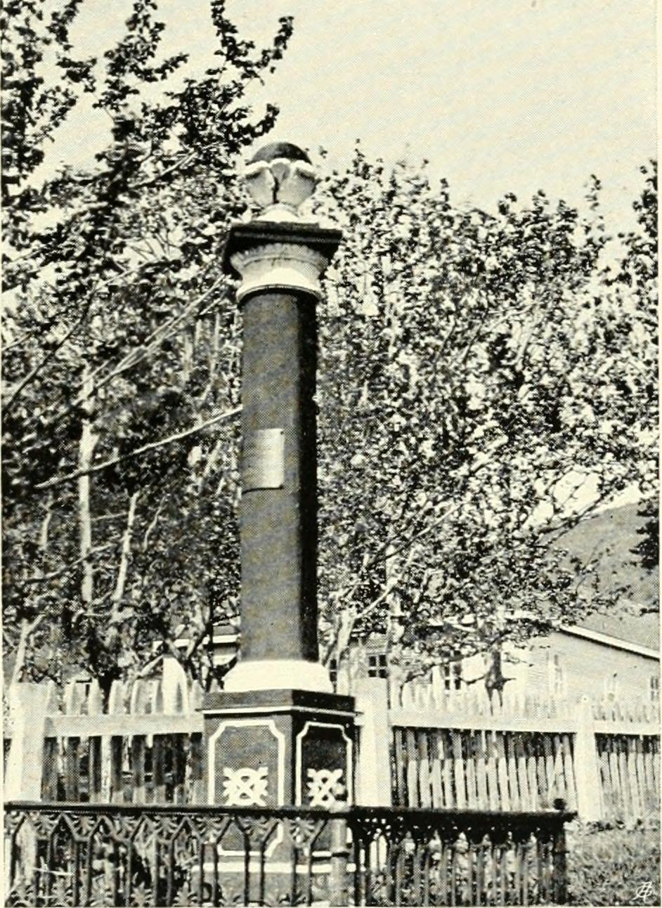 MONUMENT TO BEHRING AT PETROPAVLOVSK